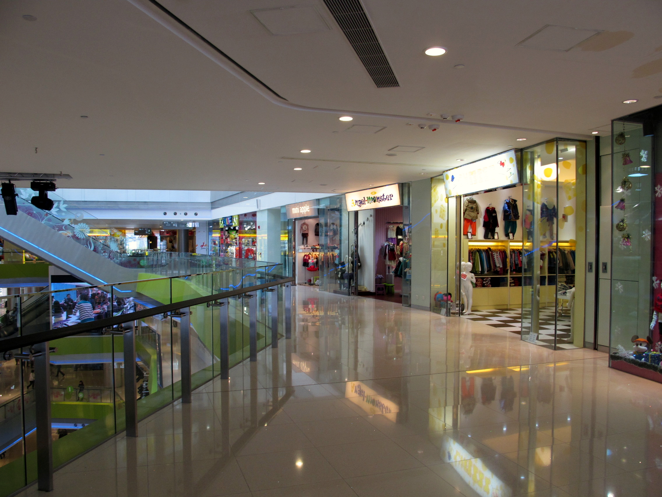 Domain Mall Level 3 Shops